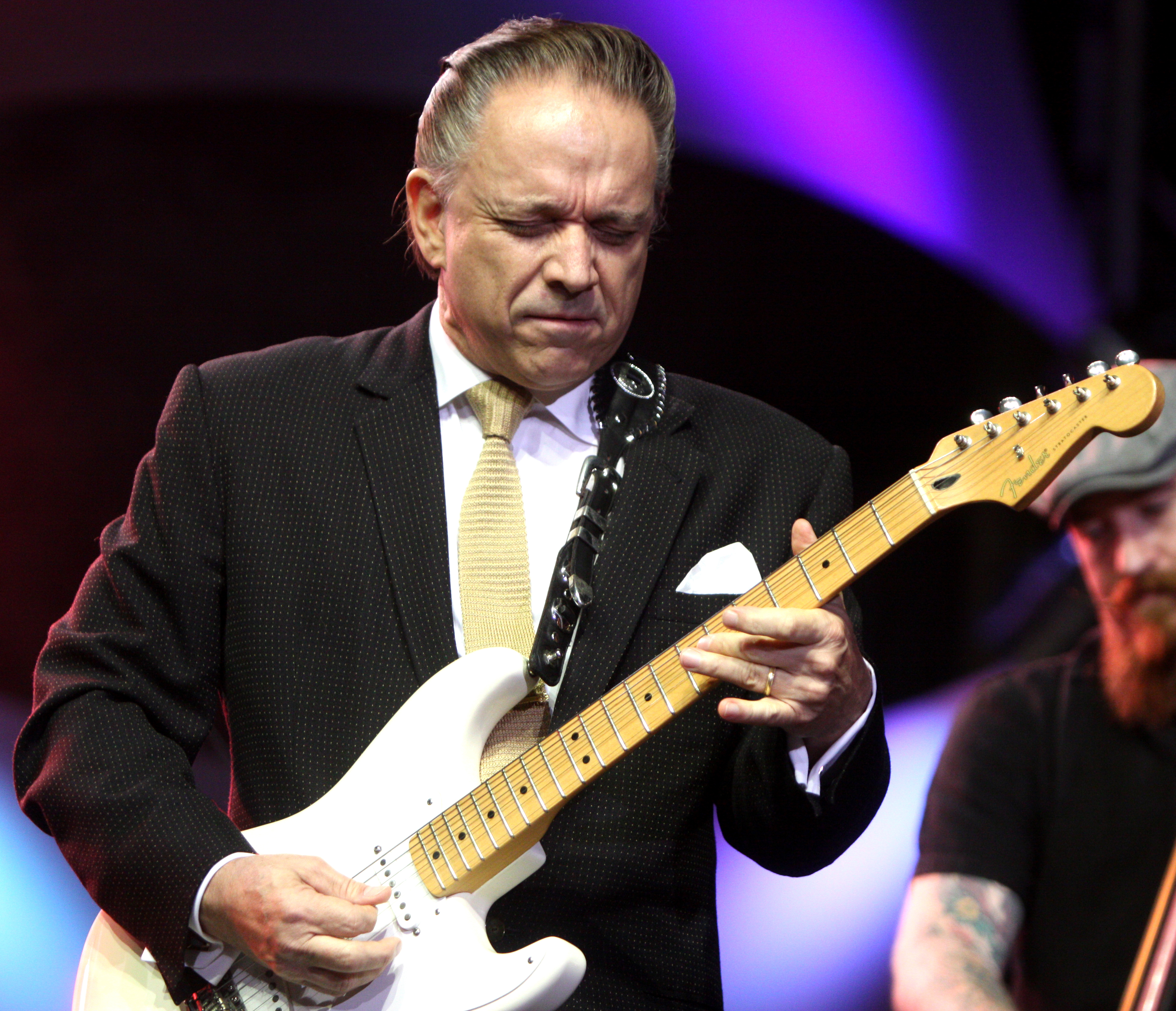 Jimmie Vaughan performing in Tampa, Florida.